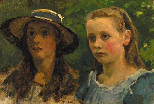 Portret van de zusjes Peronne en Constance Arntzenius